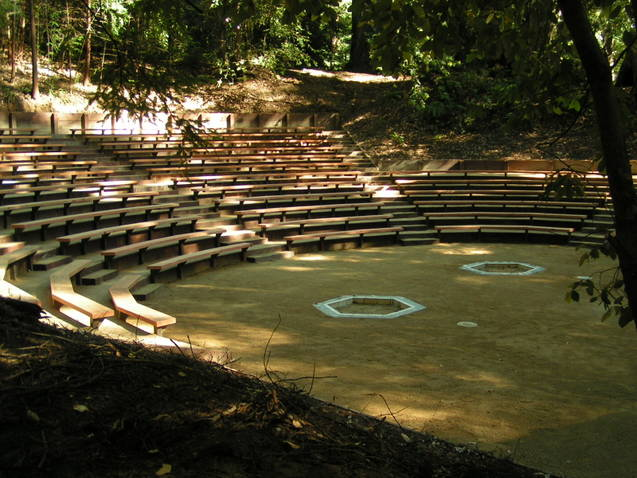 The campfire bowl at Camp Pico Blanco in California's Central Coast, rebuilt by the Esselen Lodge of the Order of the Arrow in 2011.